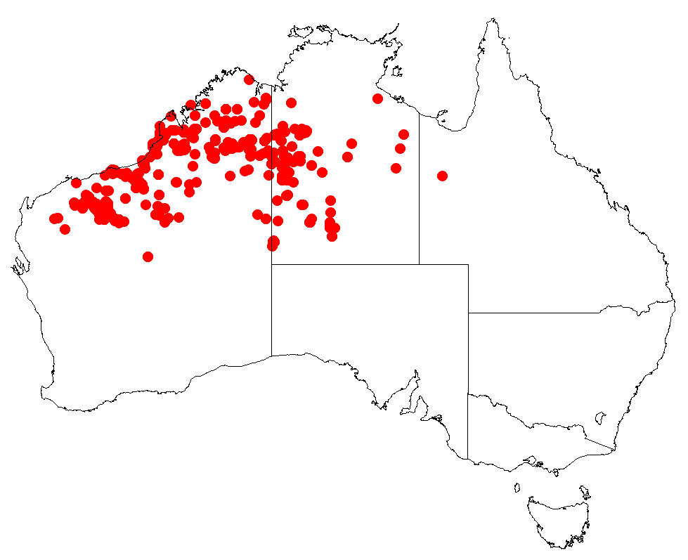 Acacia adoxa Occurrence data from Australasia Virtual Herbarium downloaded from on 8 December 2018